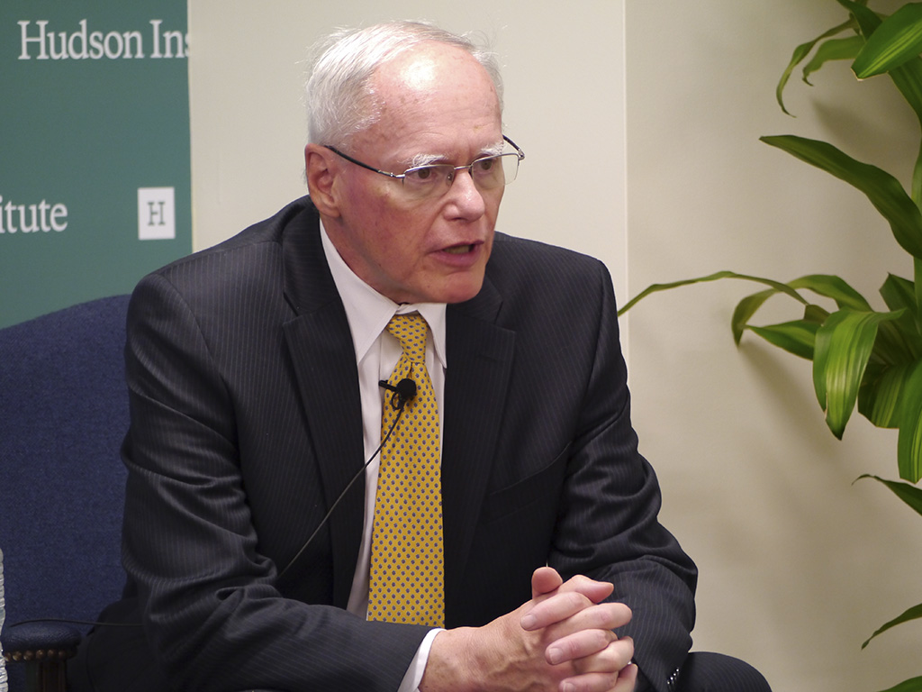 James Franklin Jeffrey speaks at Hudson Institute